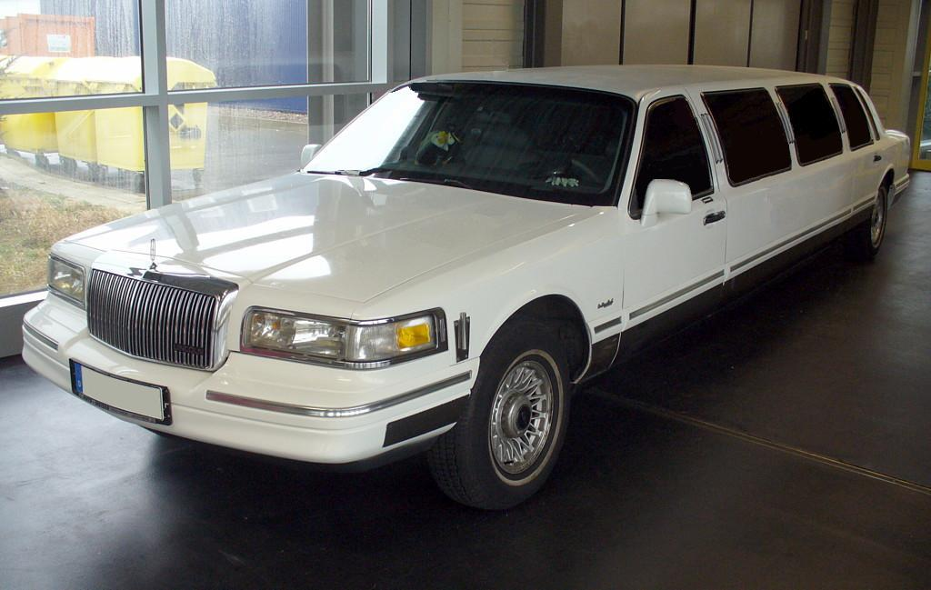 Lincoln Town Car Stretch